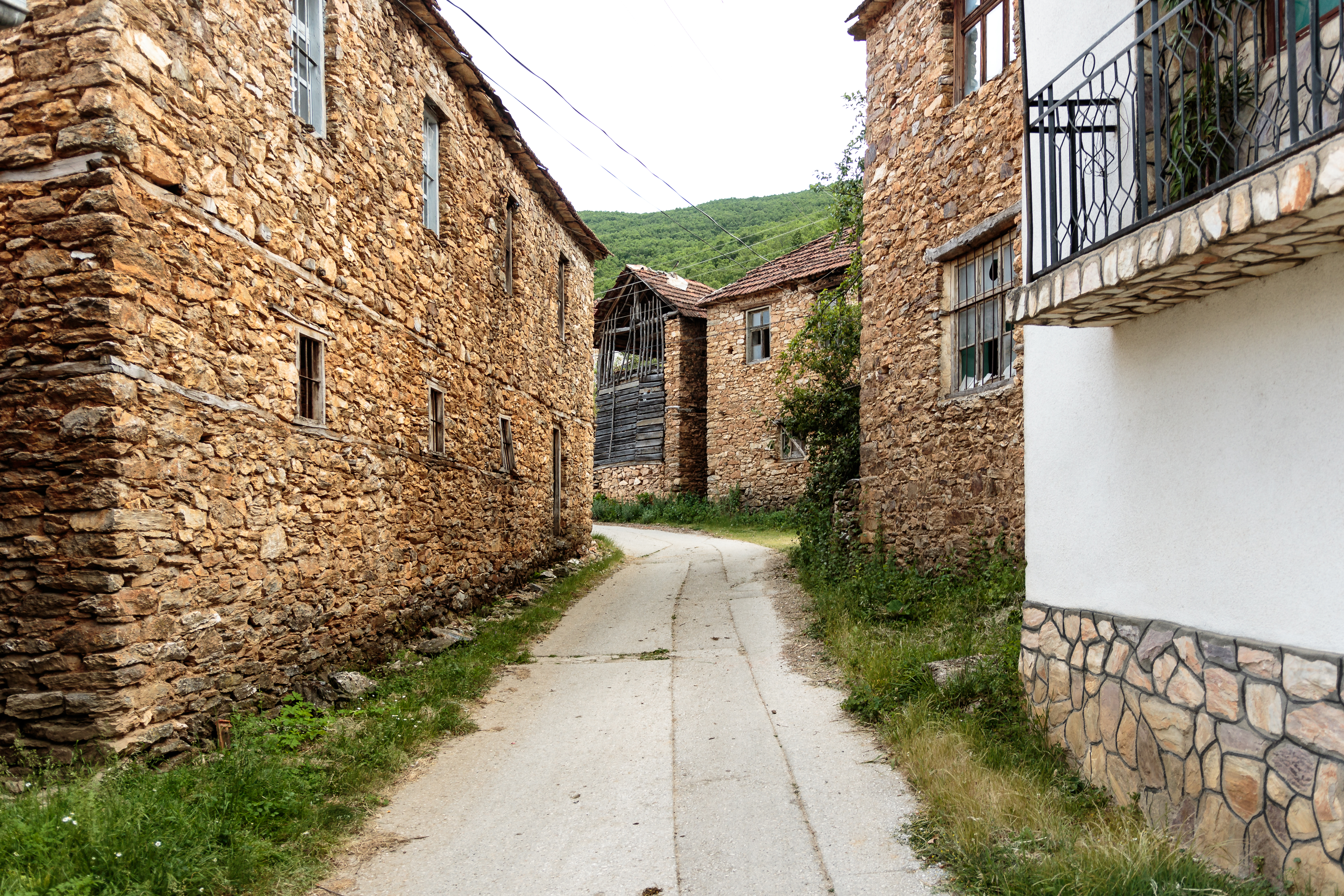 Street in the village Žvan